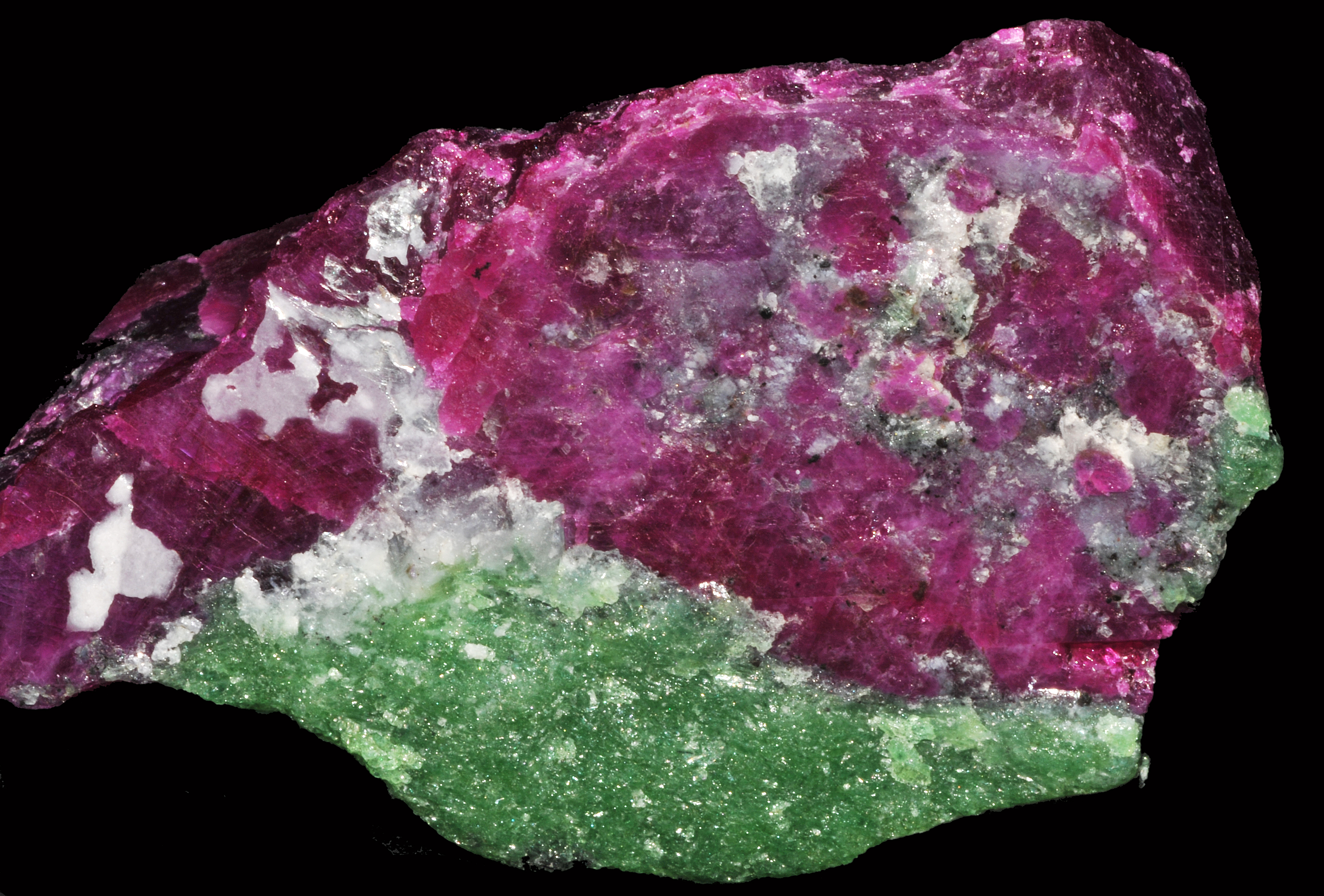 crystals of corundum var. ruby, crystals of zoisite var. anyolite : Mundarara Mine, Longido, Mt Kilimanjaro, Kilimanjaro Region, Tanzania - lenght : 77 mm, thickness : 25 mm